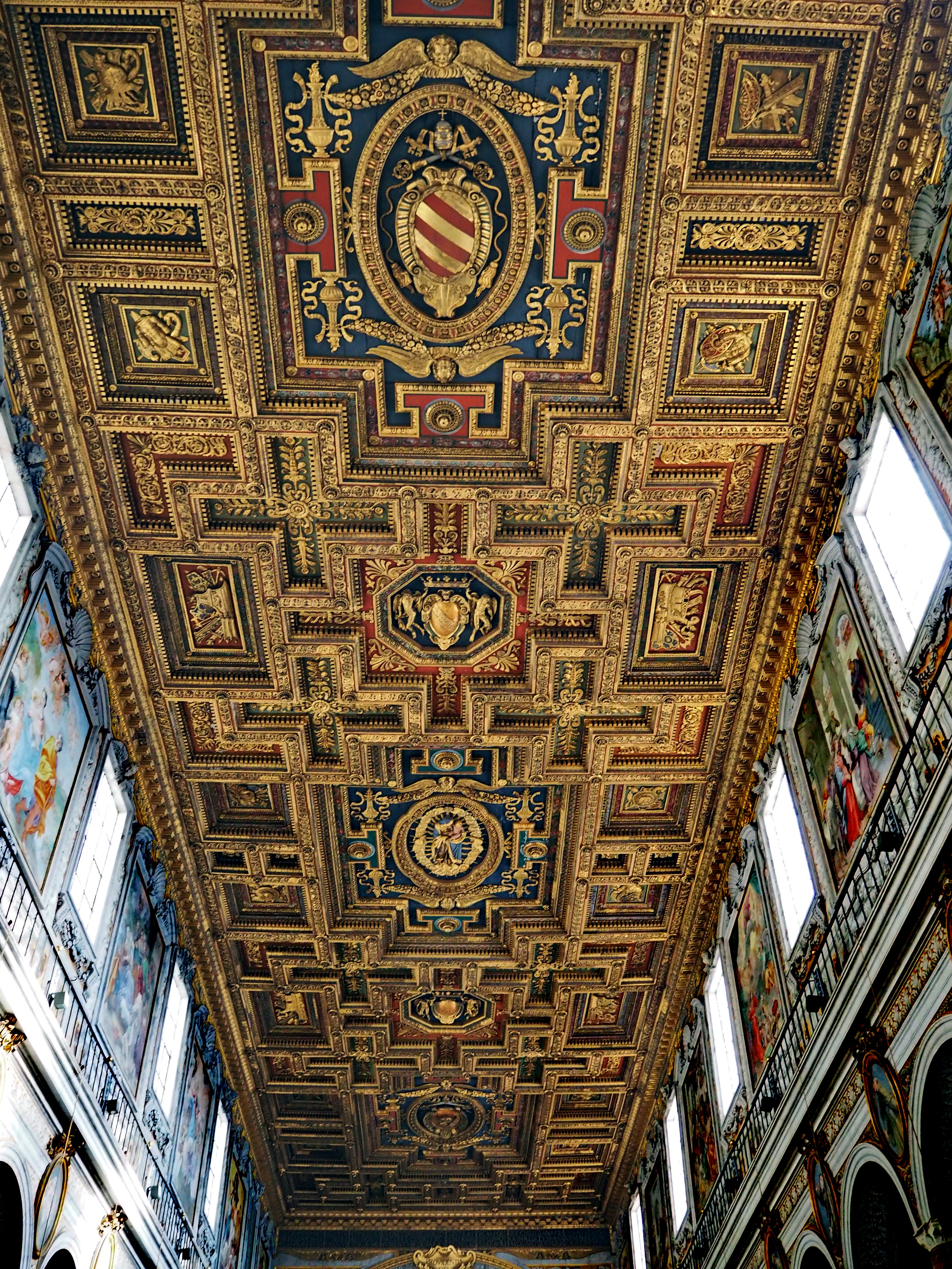 Santa Maria in Aracoeli (Rome); Coffered ceiling